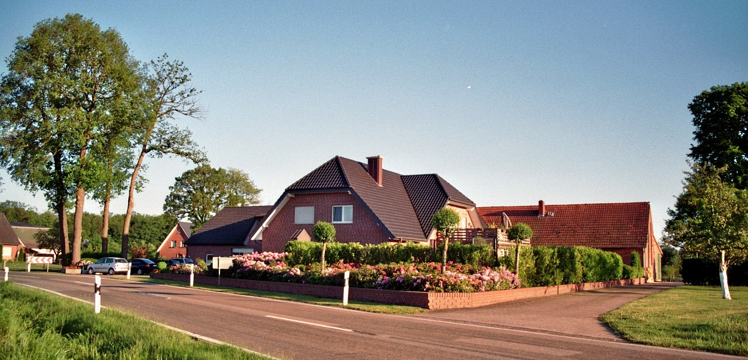 The farm Hof Üffing, birthplace of Maria Euthymia Üffing, in Hopsten-Halverde, Kreis Steinfurt, North Rhine-Westphalia, Germany.